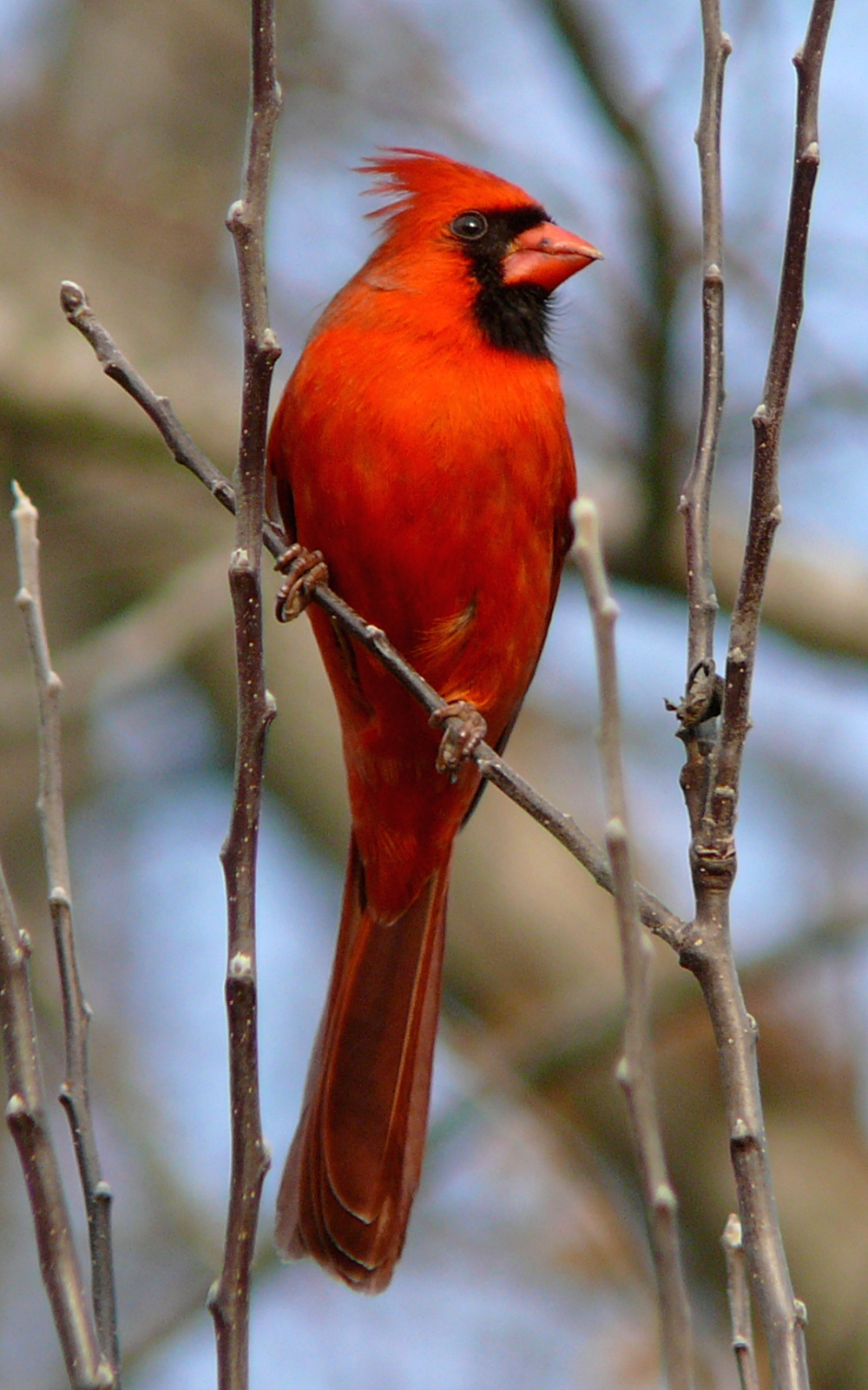 A male Northern Cardinal (Cardinalis cardinalis) perched in the branches of an apple tree. Photo taken with a Panasonic Lumix DMC-FZ50 in Caldwell County, North Carolina, USA.